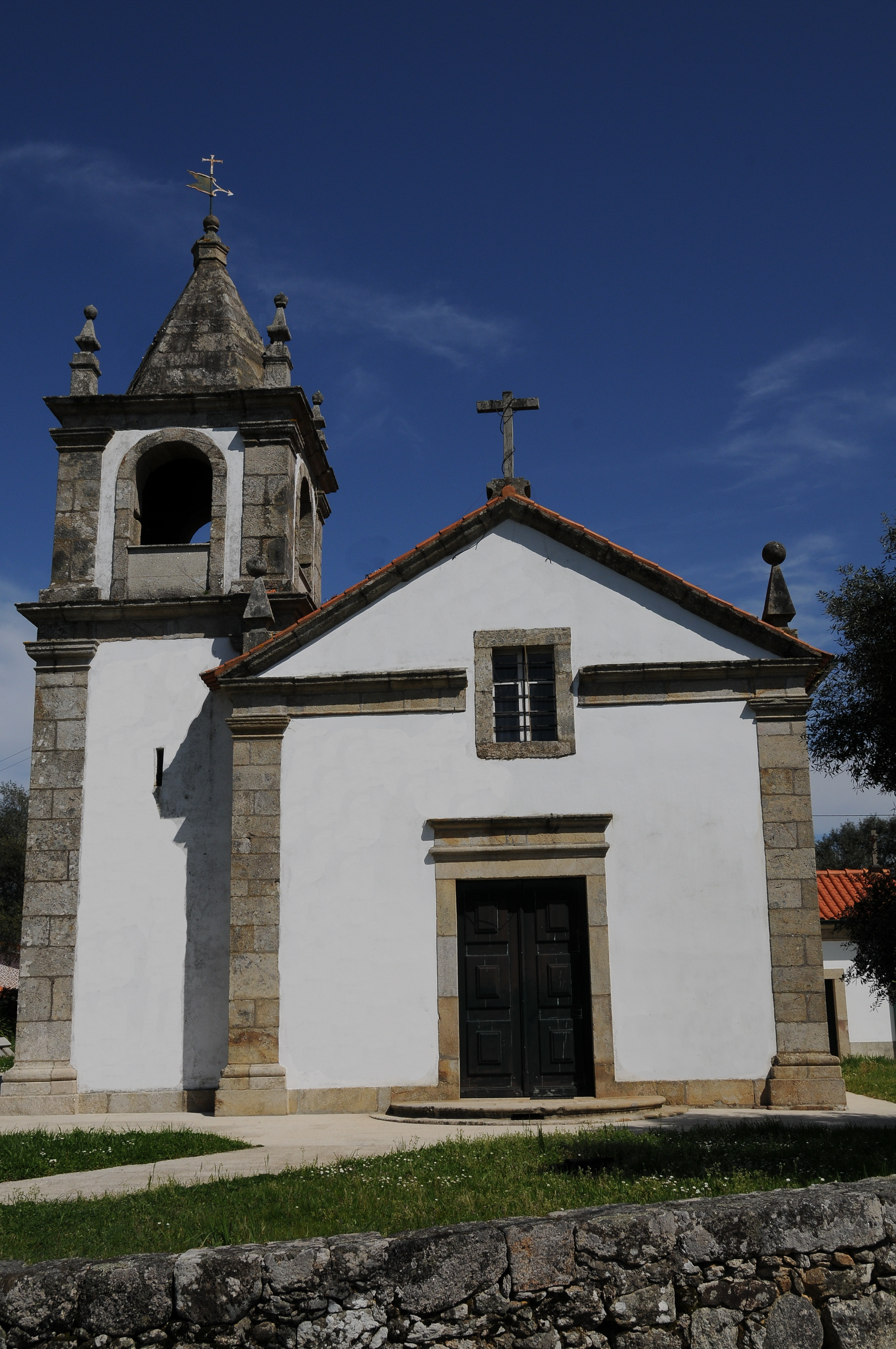 Troviscoso Church, in Troviscoso, Monção, Portugal